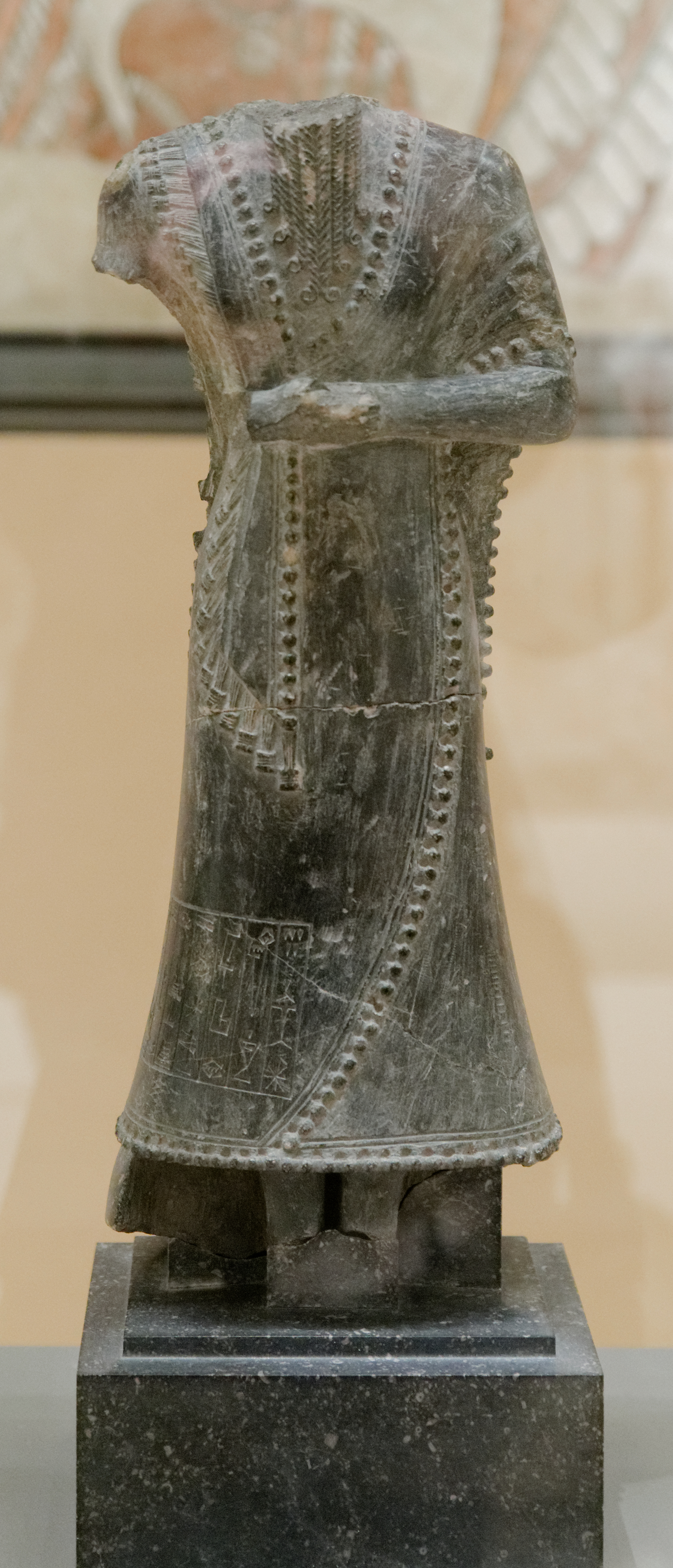 Statue of Idi-ilum, šakkanakku of Mari, dedicated to Ishtar. From the palace of Zimri-Lim in Mari.